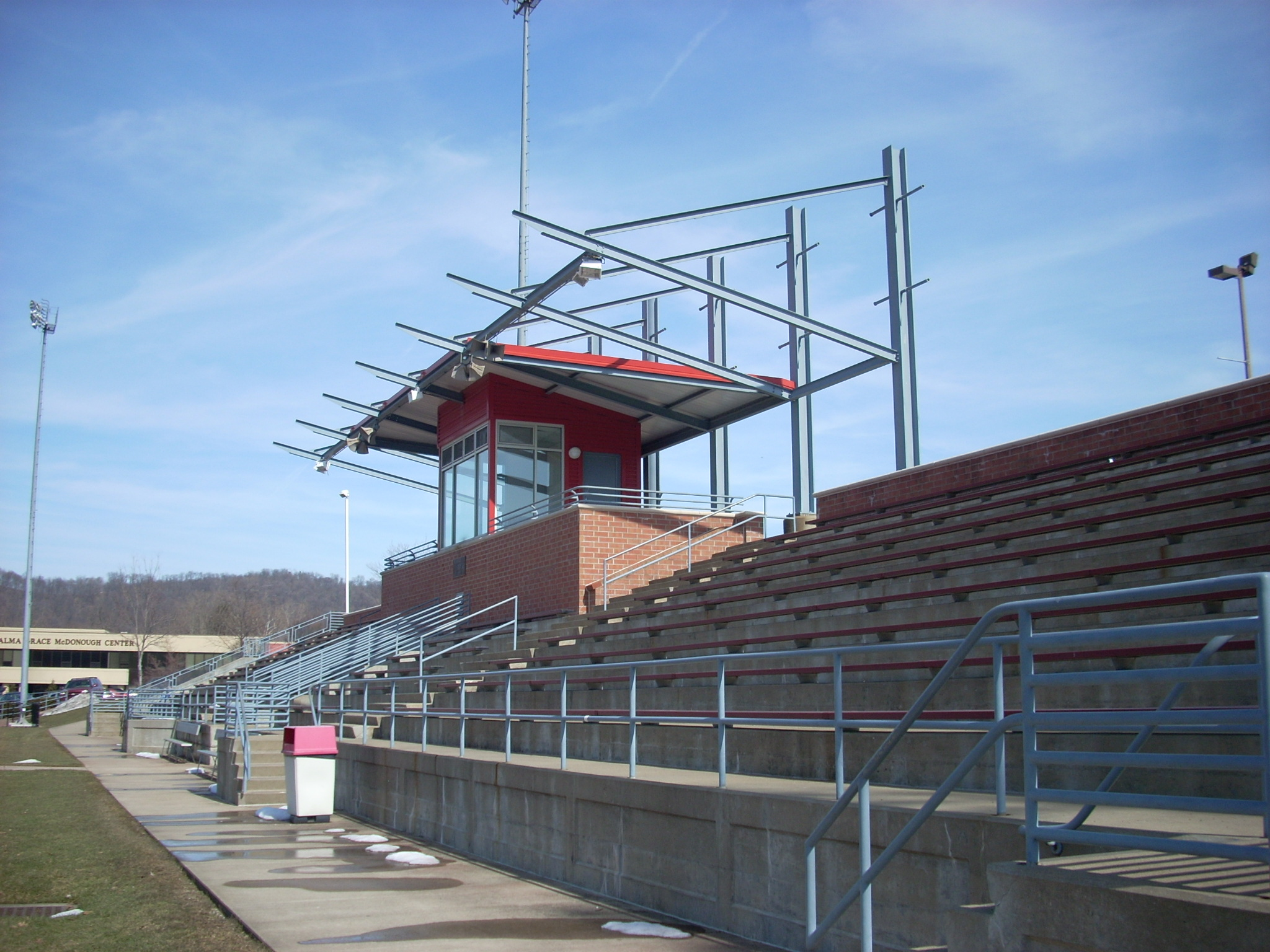 A photo of the Bill Van Horne Grandstand at Wheeling Jesuit University